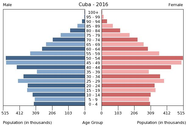 The population pyramid of Cuba illustrates the age and sex structure of population and may provide insights about political and social stability, as well as economic development. The population is distributed along the horizontal axis, with males shown on the left and females on the right. The male and female populations are broken down into 5-year age groups represented as horizontal bars along the vertical axis, with the youngest age groups at the bottom and the oldest at the top. The shape of the population pyramid gradually evolves over time based on fertility, mortality, and international migration trends.